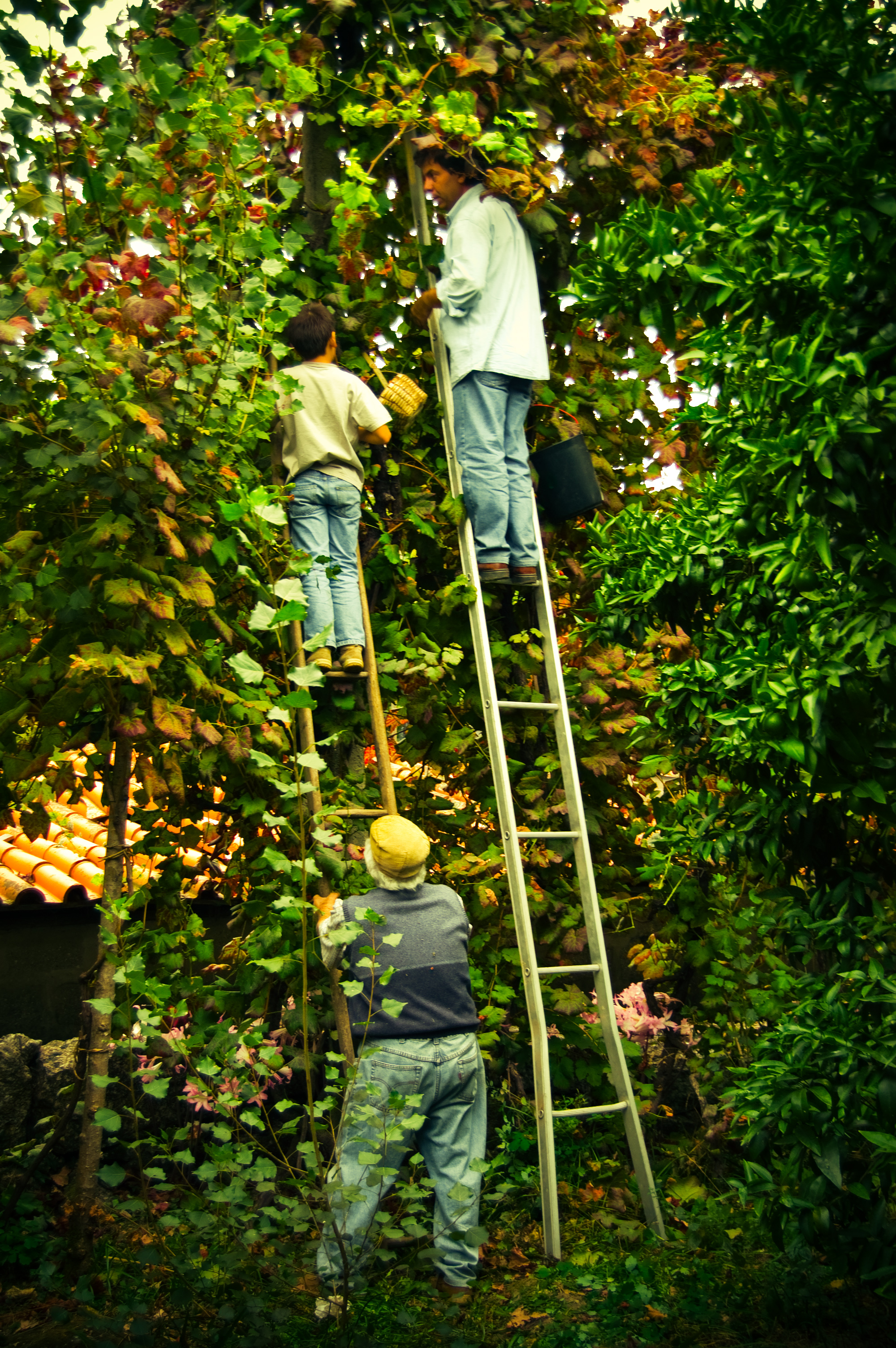 Portuguese grape harvested using a ladder to pick wine grapes that have been trellised on high pergolas.